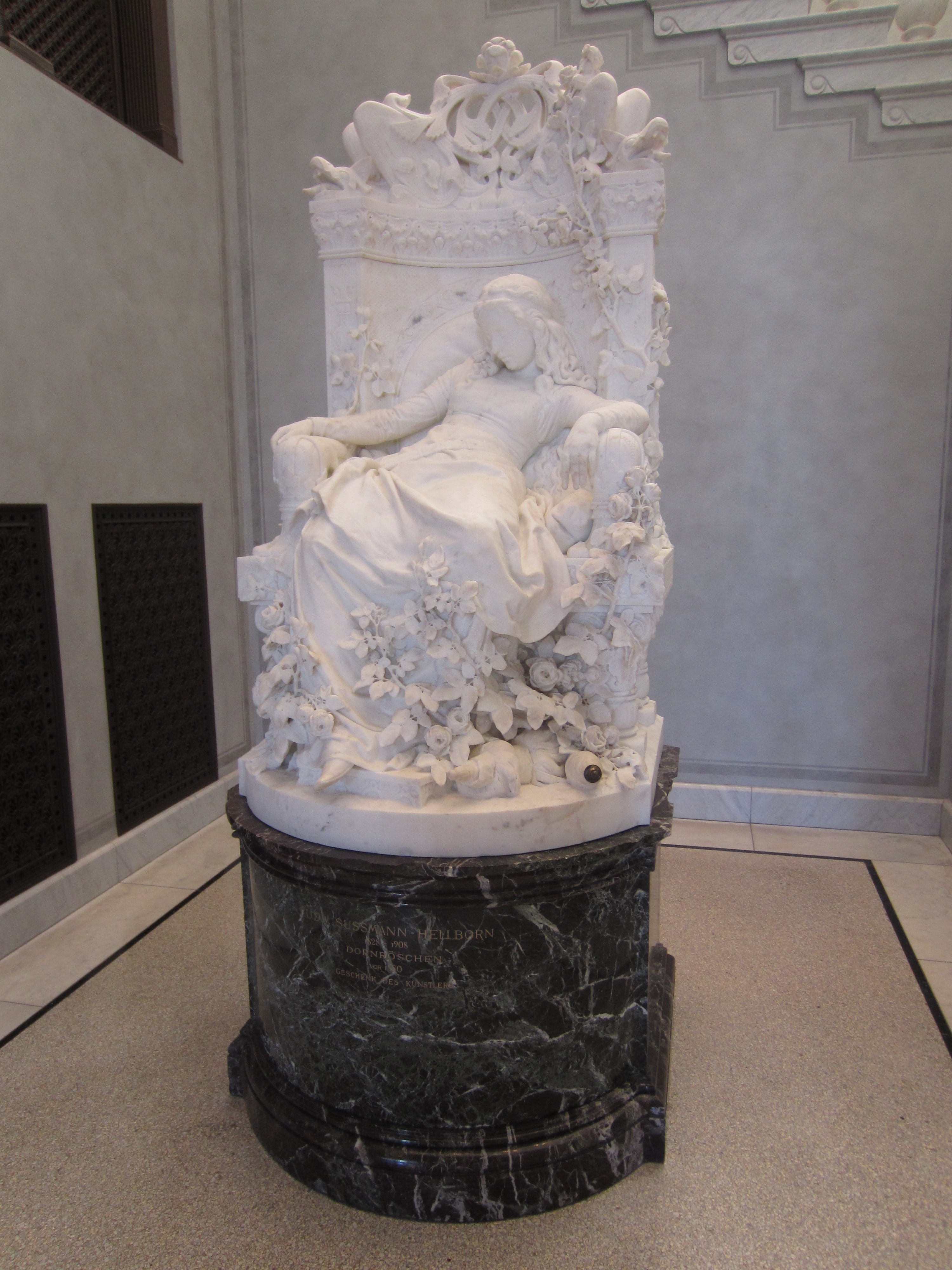 Dornröschen, Berlin, Germany (April 2016)